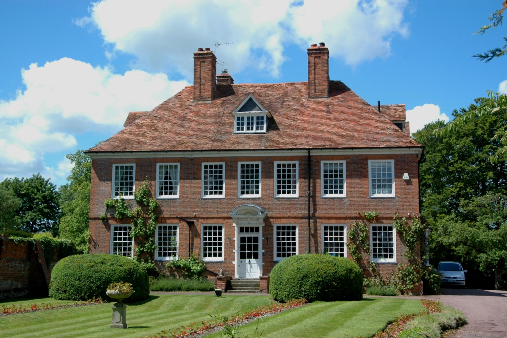 Manor House in Aston Street, Aston Tirrold, Oxfordshire (formerly Berkshire)